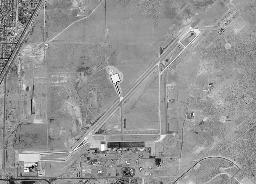 USGS digital orthophoto of Biggs Army Airfield, north of El Paso International Airport (former El Paso Army Airfield), in Texas, United States.